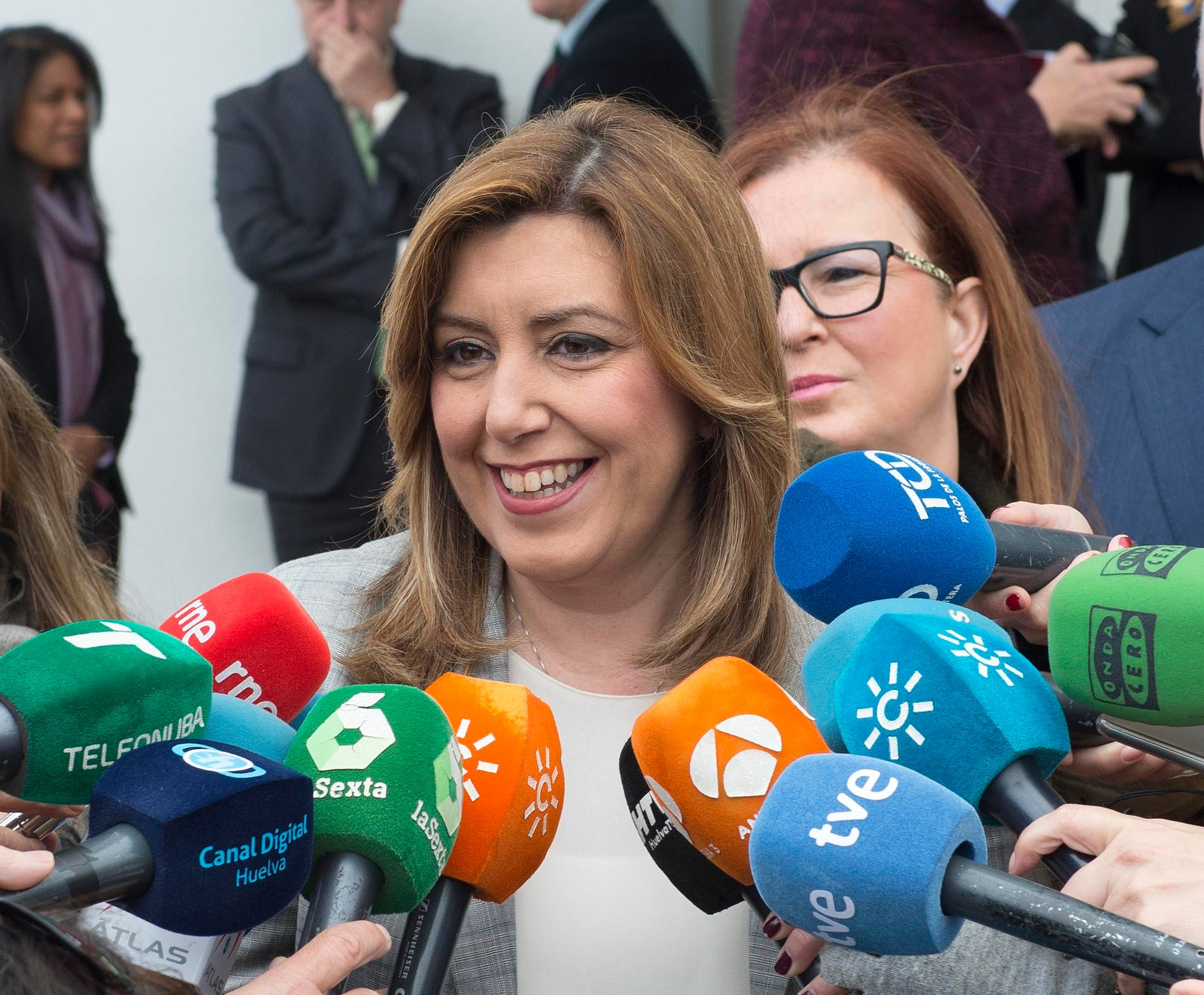 Susana Díaz in March 2013.